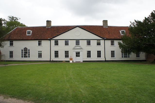 Wingfield College, 14th century foundation in Wingfield, Suffolk.